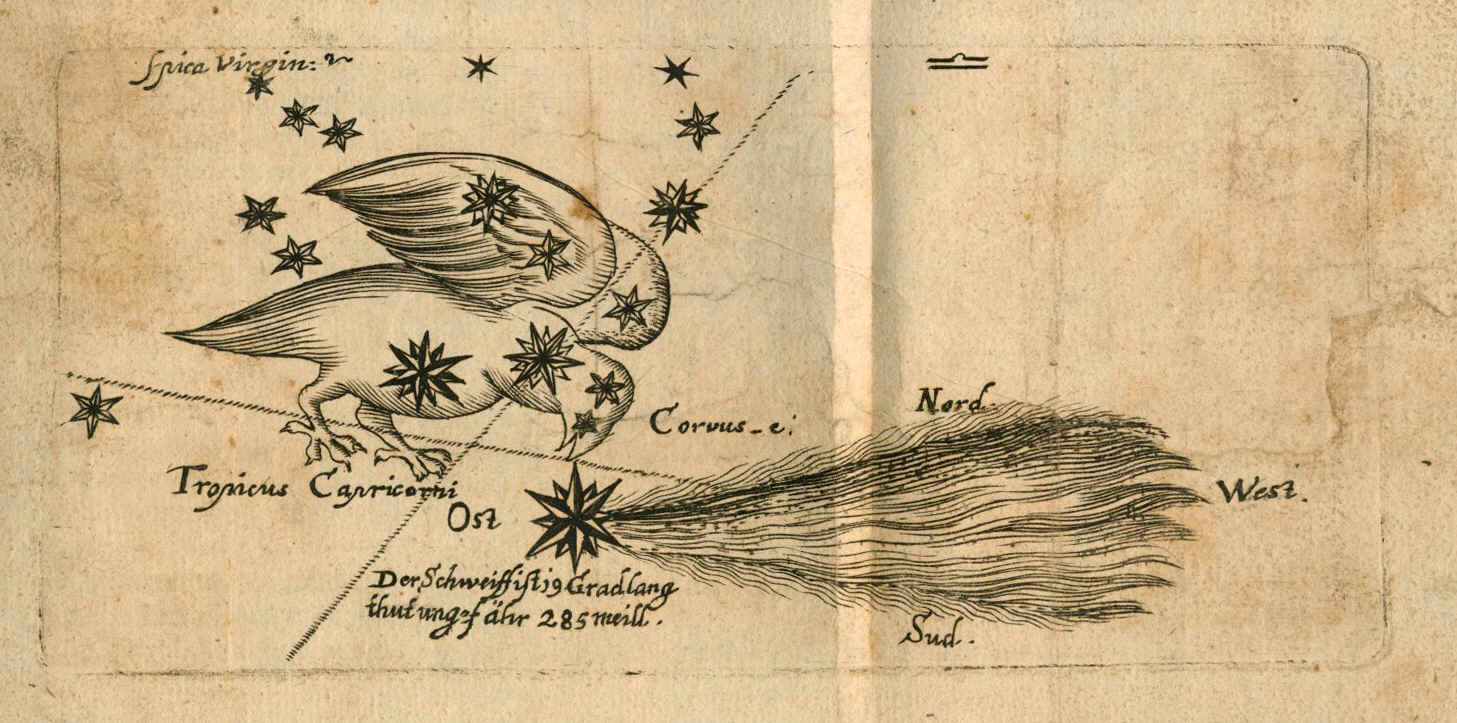 Depiction of the comet of 1664